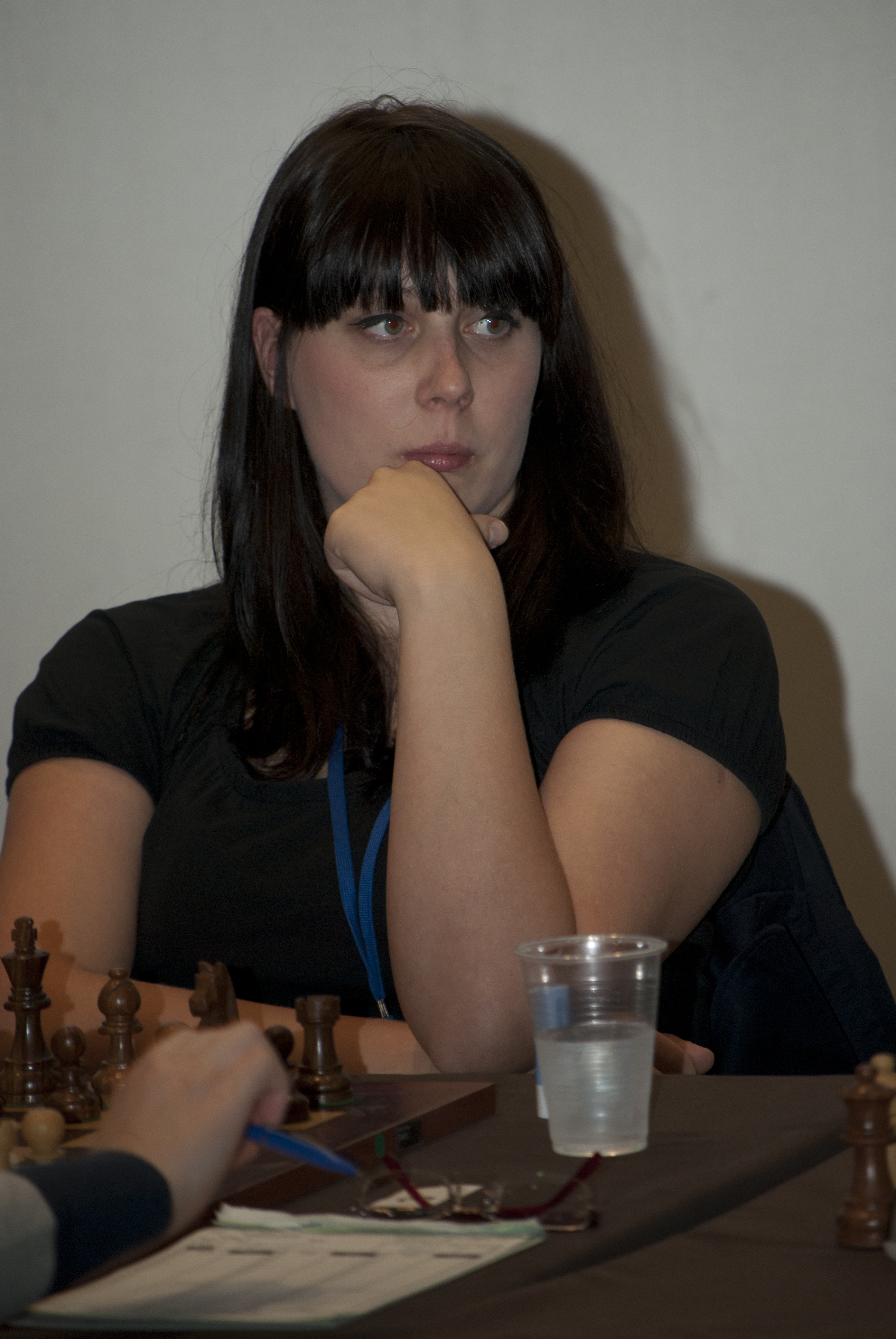 Kristina Šarić on the European Team Chess Club 2011 (ETCC 2011).